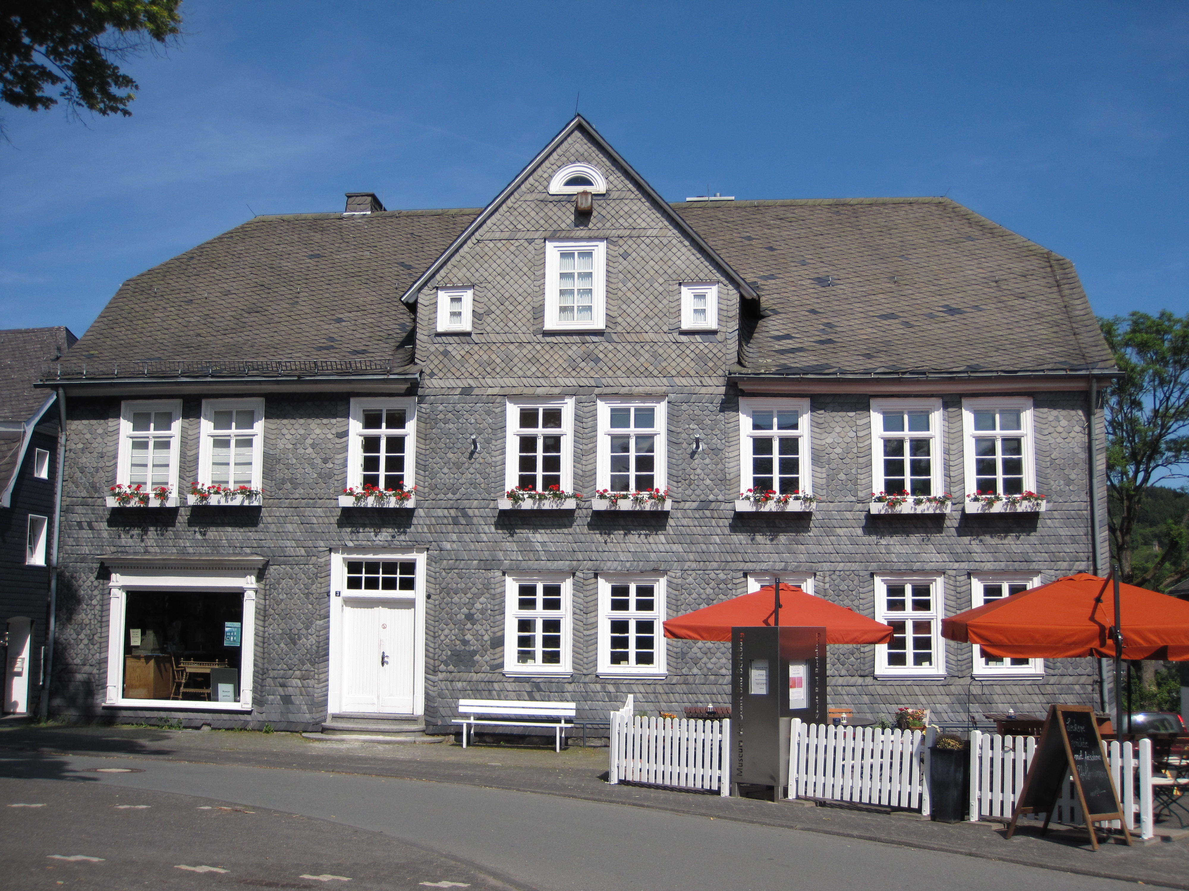 This is a photograph of an architectural monument., no. 050